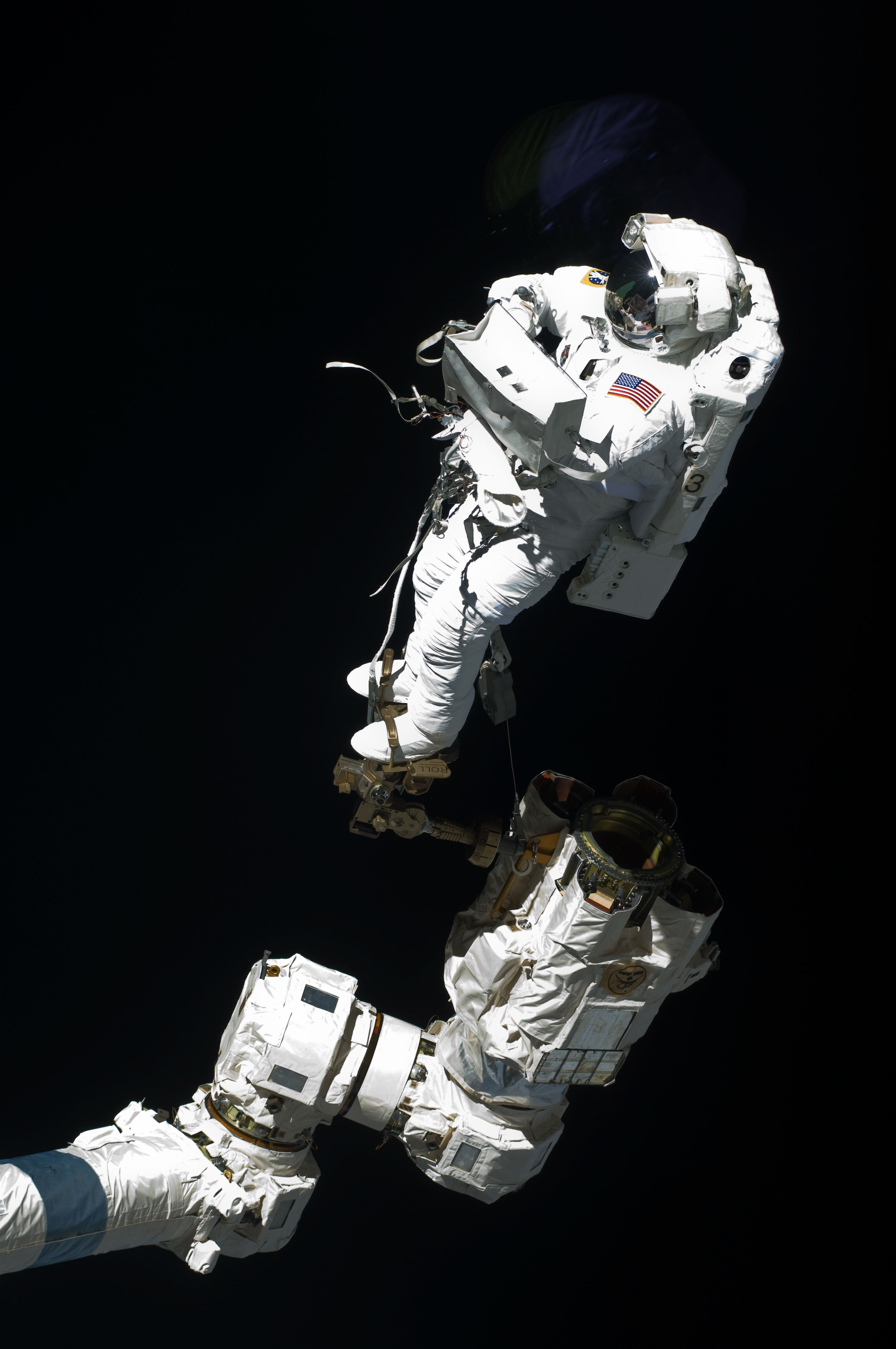 Anchored to a Canadarm2 mobile foot restraint, astronaut Robert L. Satcher Jr., STS-129 mission specialist, participates in the mission's first session of extravehicular activity (EVA) as construction and maintenance continue on the International Space Station. During the six-hour, 37-minute spacewalk, Satcher and astronaut Mike Foreman (out of frame), mission specialist, installed a spare S-band antenna structural assembly to the Z1 segment of the station's truss, or backbone. Foreman and Satcher also installed a set of cables for a future space-to-ground antenna on the Destiny laboratory and replaced a handrail on the Unity node with a new bracket used to route an ammonia cable that will be needed for the Tranquility node when it is delivered next year. The two spacewalkers also repositioned a cable connector on Unity, checked S0 truss cable connections, and lubricated latching snares on the Kibo robotic arm and the station's mobile base system.